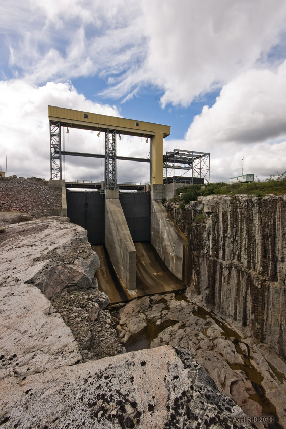 Caniapiscau Spillway